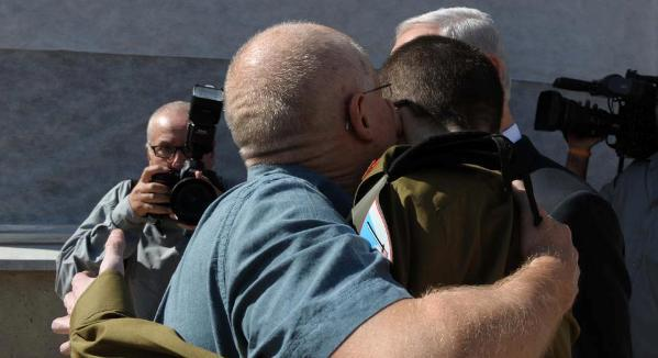 October 18, 2011 After landing in an IDF base, Gilad Shalit was reunited with his father, Noam.